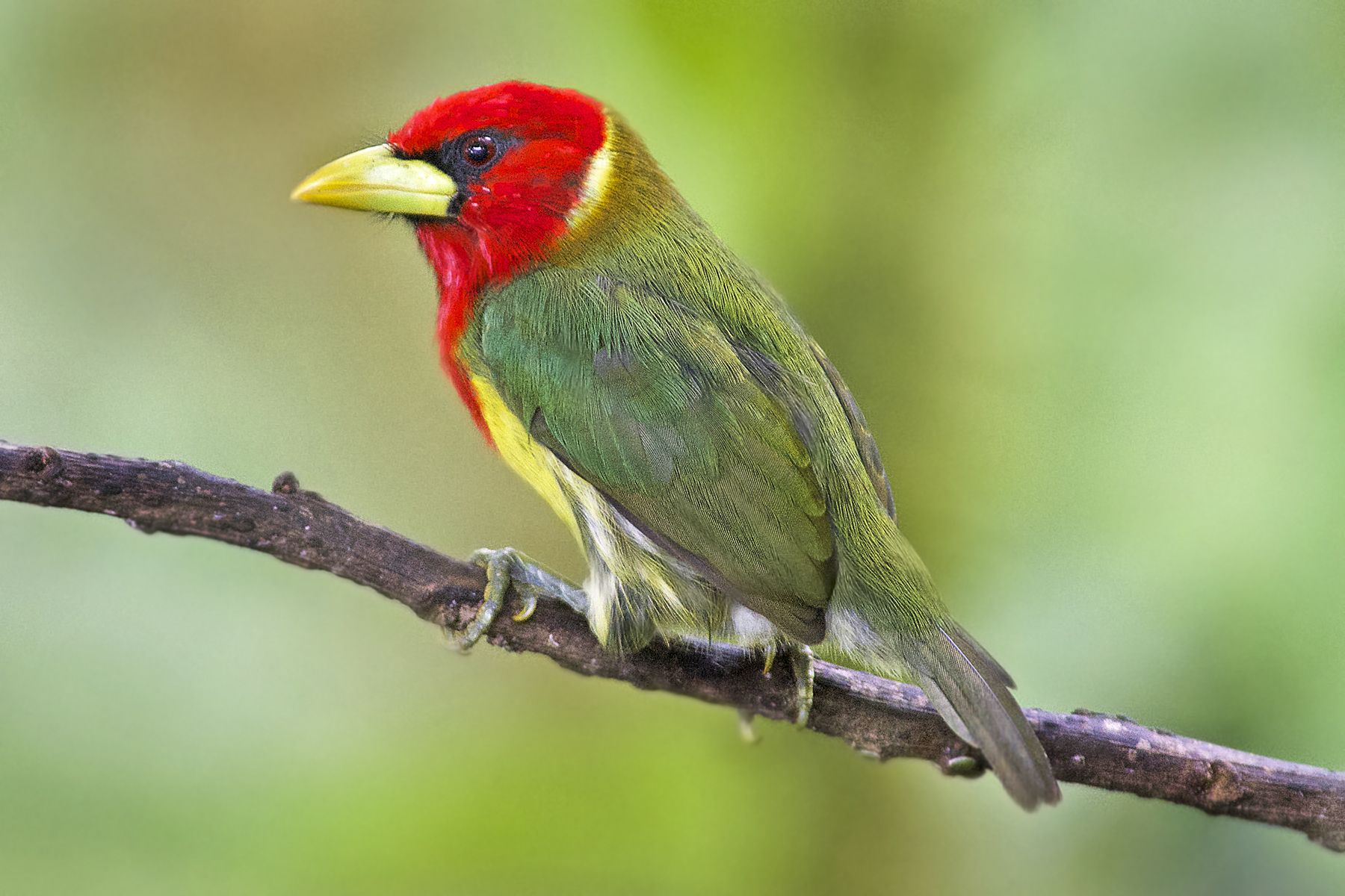 I was fortunate enough to see male Red-headed Barbets in several locations during my visits to Ecuador. The red is quite intense. July 8, 2014. Near Mirador Rio Blanco lodge, San Miguel de Los Bancos, northwest Ecuador.